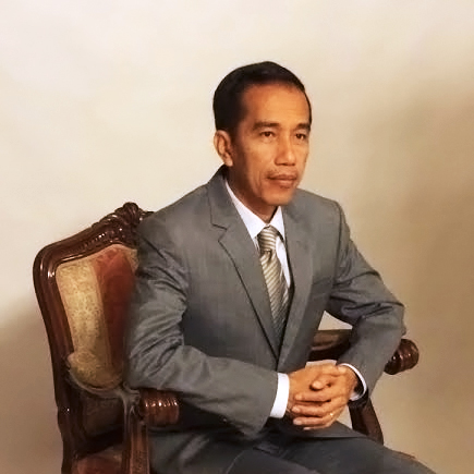 Joko Widodo, 7th President of the Republic of Indonesia